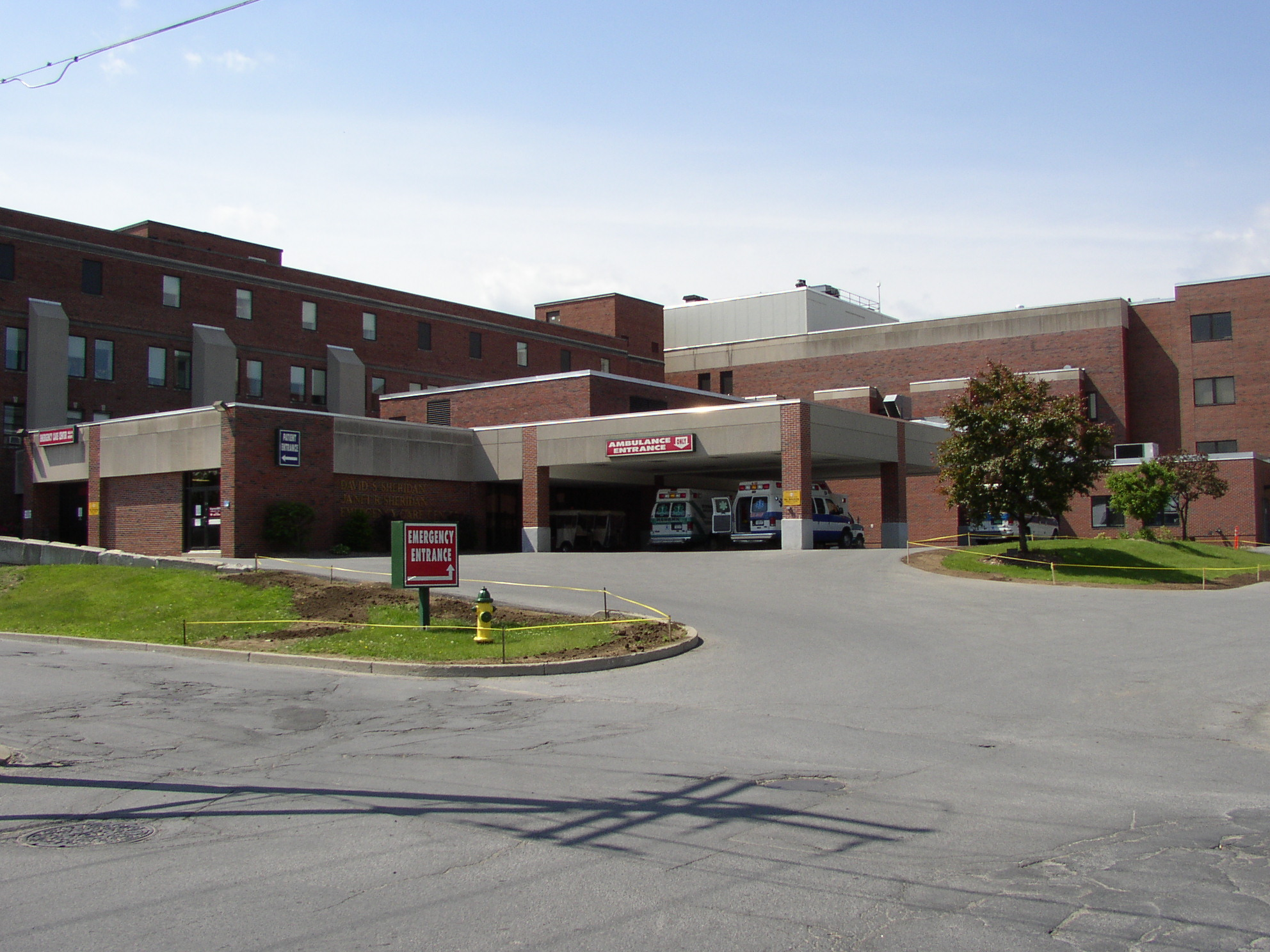 The Emergency Care Center (ER) ambulance entrance of Glens Falls Hospital in Glens Falls, New York as viewed from corner of School and Park Streets, facing southwest.